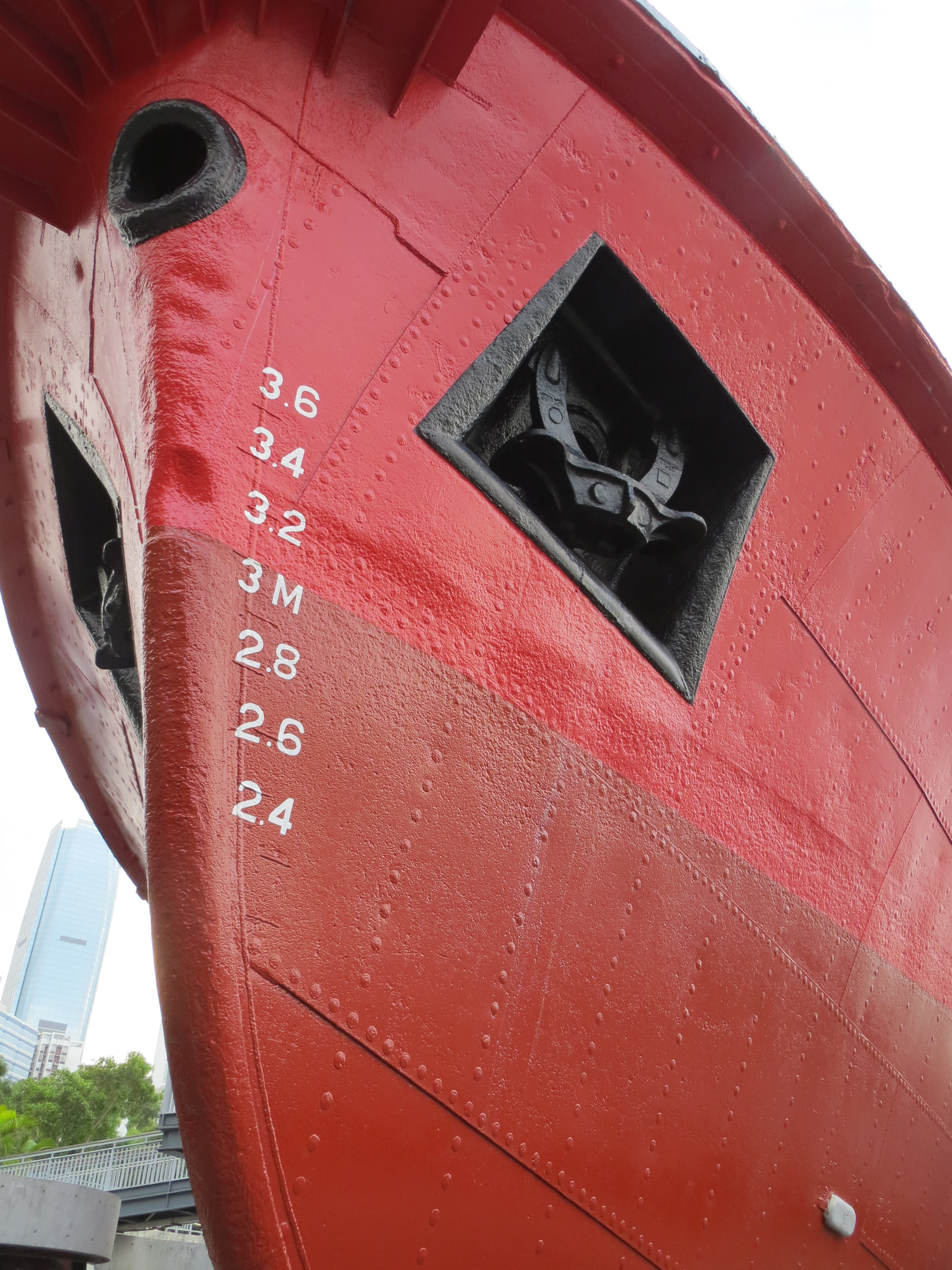 Draft marks on the bow (port side) of the Fireboat Alexander Grantham, Fireboat Alexander Grantham Exhibition Gallery, Hong Kong.